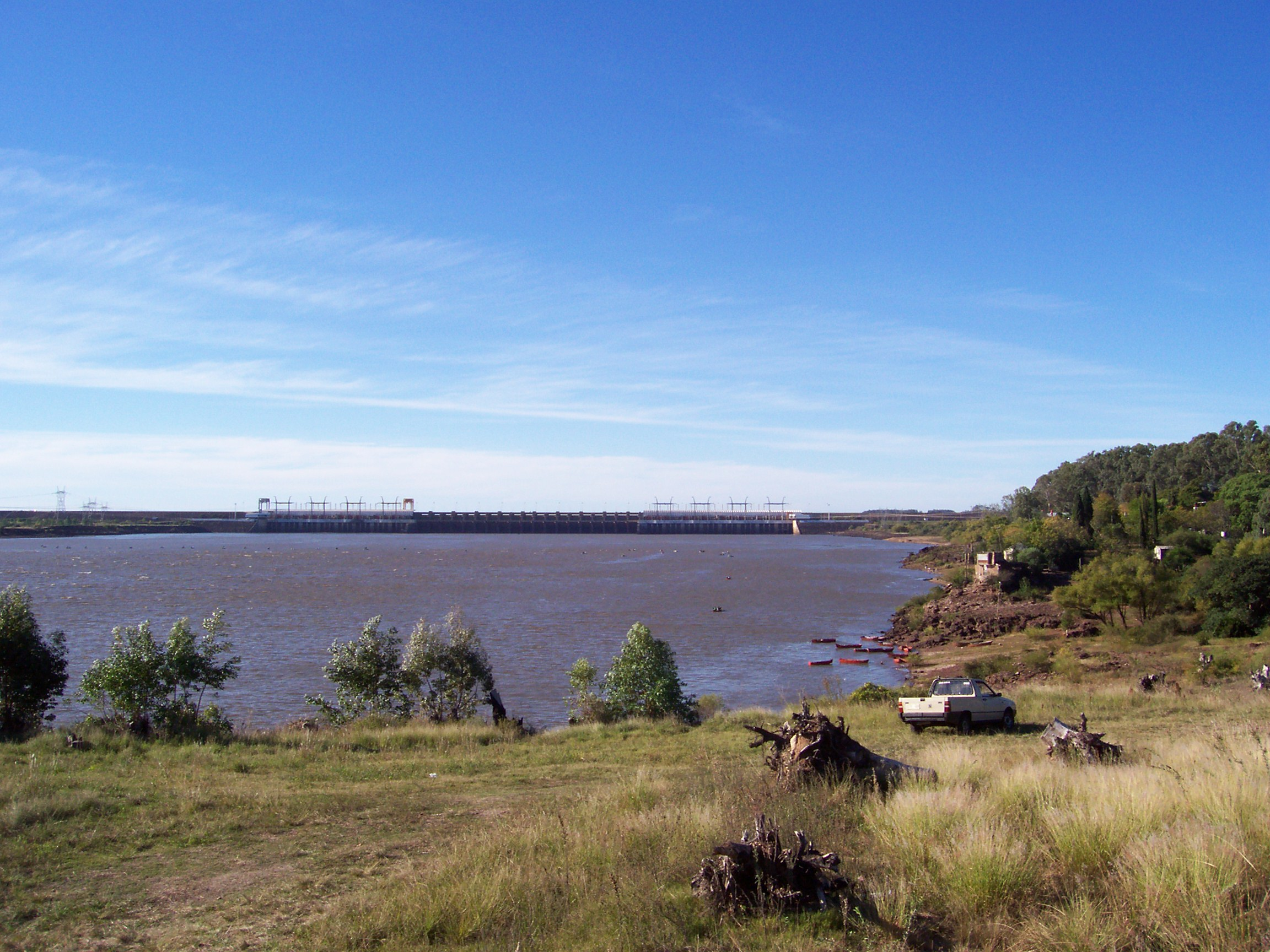 Levee of the Salto Grande Dam, seen from the Uruguayan border.